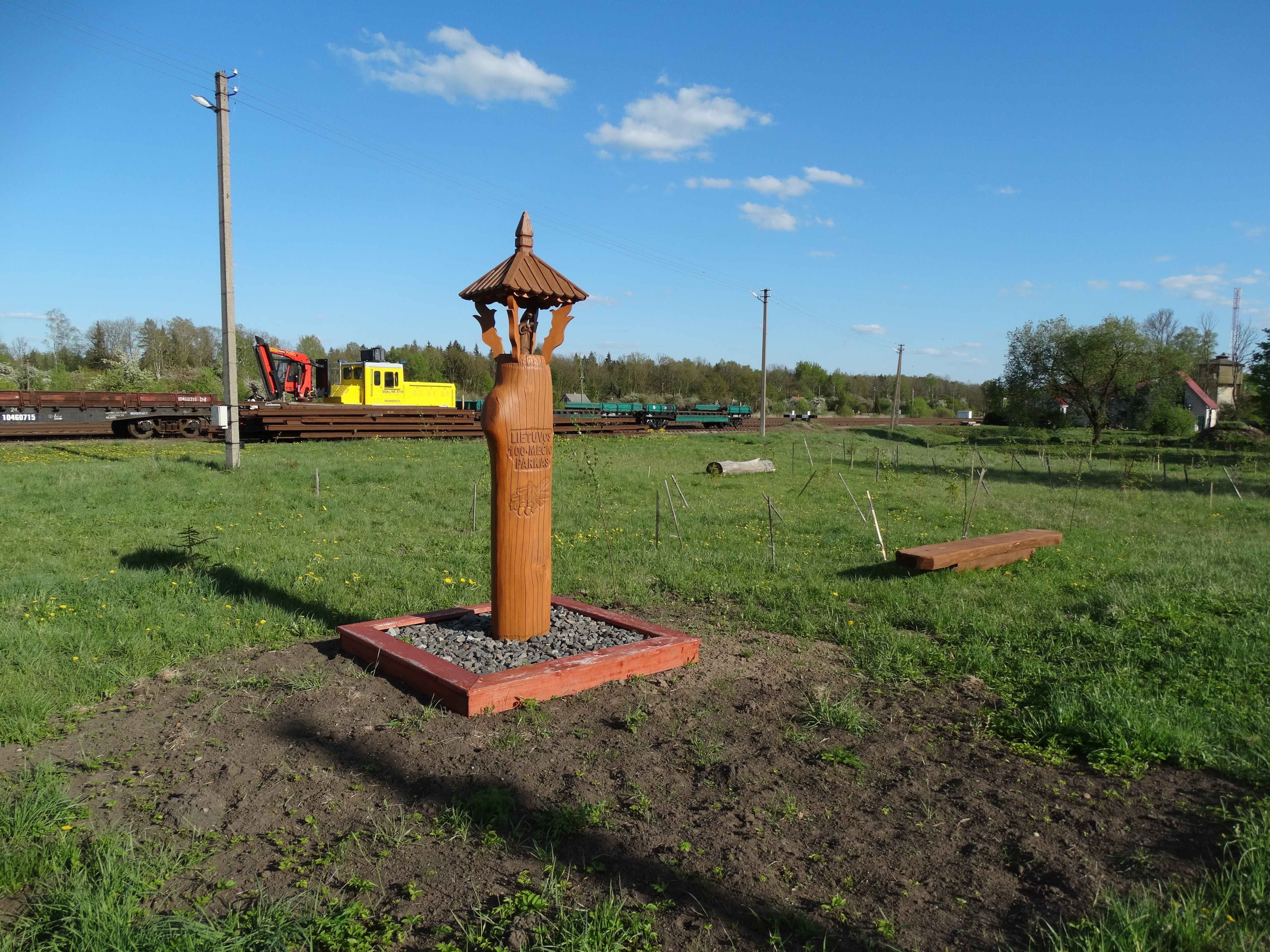 Baisogala, by railroad, Radviliškis District, Lithuania